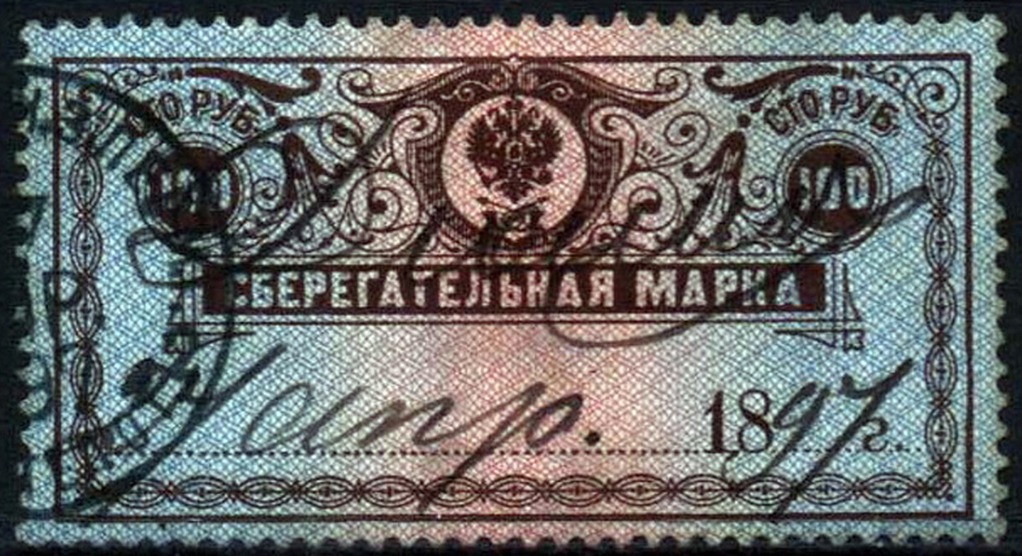 Savings stamp of Russia, 1896, 100r.